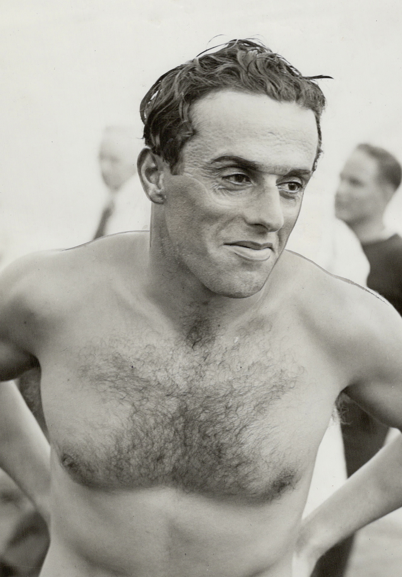 Gianni Gambi; indefatigable Italian hope for second time and 1935 winner; plowed home 12 minutes after Nolan. His wry smile (5) shows his diappointment; although he has the satisfaction of besting his fellow-countryman. Renato Bacigalupo.